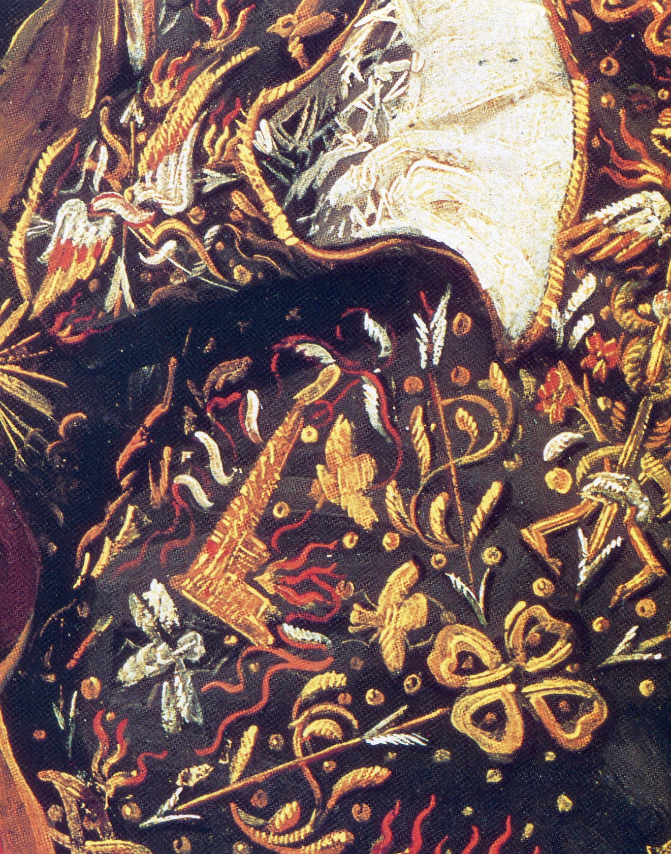 Frans Hals, "The Laughing Cavalier" (sleeve detail) - 1624 - Oil on canvas - Wallace Collection, London